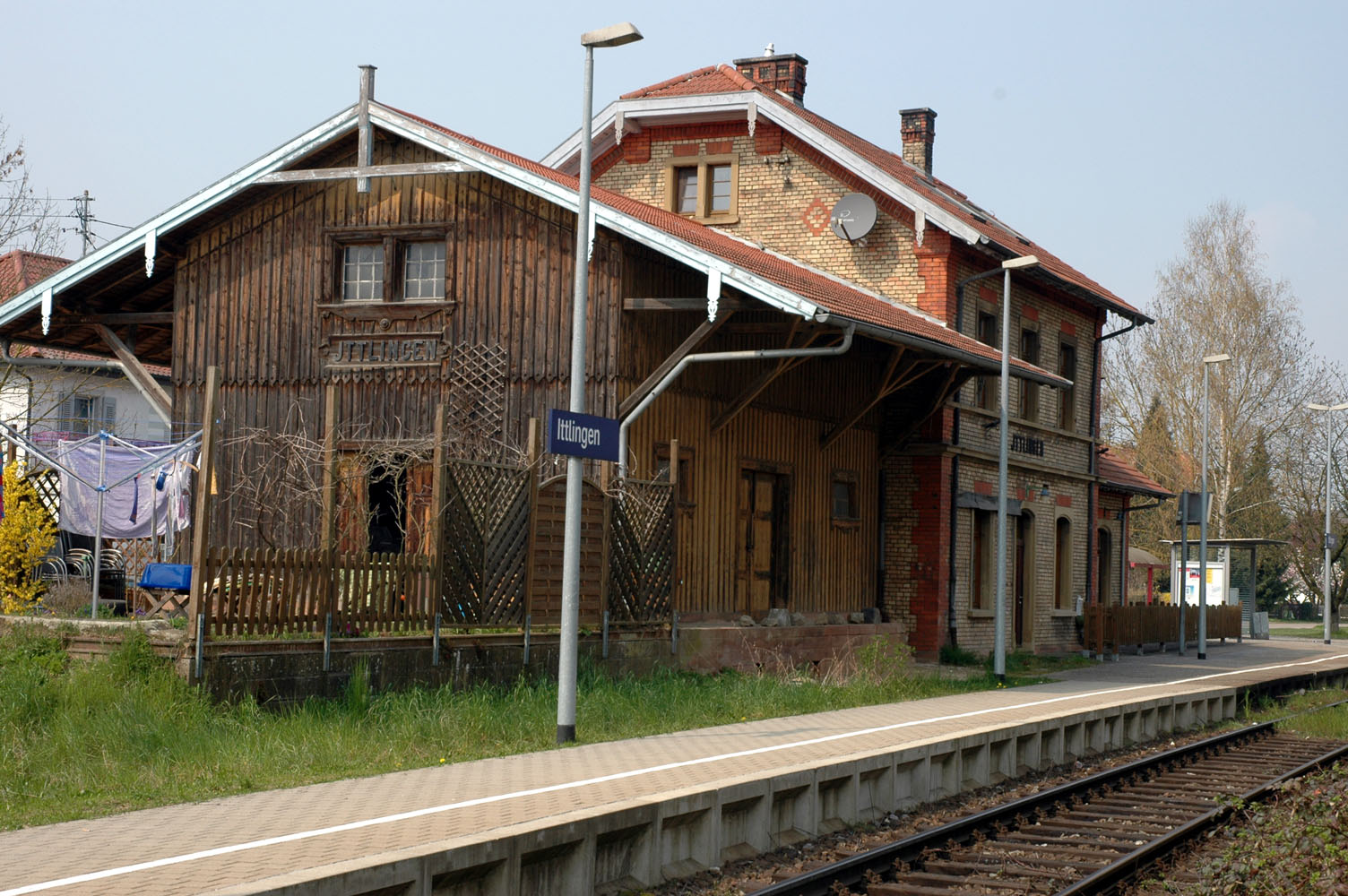 railway station of Ittlingen.